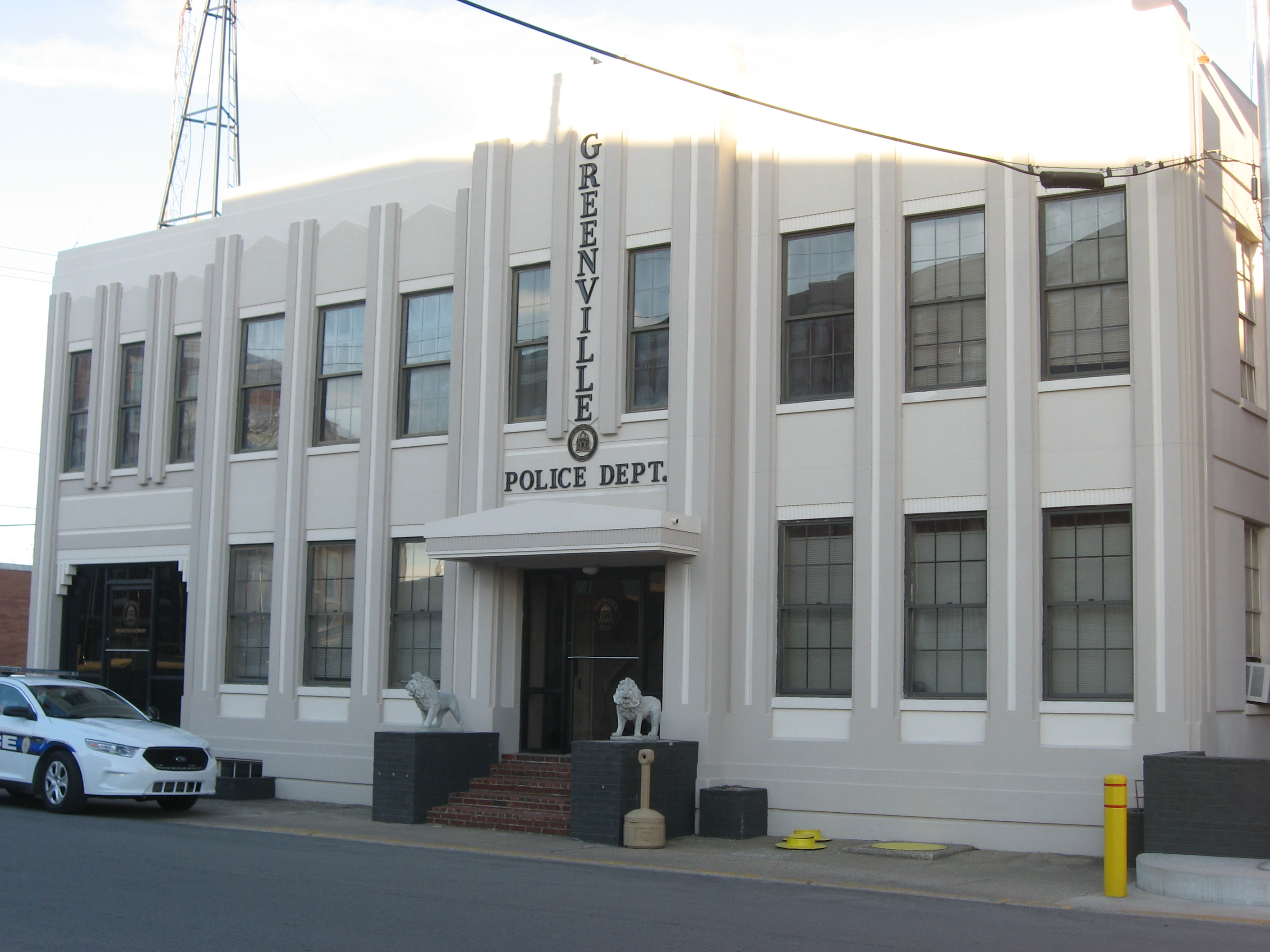 Front of the Greenville city police station (formerly City Hall), located at 200 Court Street in Greenville, Kentucky, United States. Built in 1940, it is listed on the National Register of Historic Places.